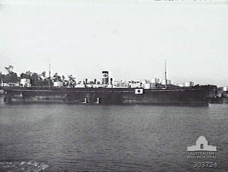 Japanese Tanker SS Ogura Maru No. 3.